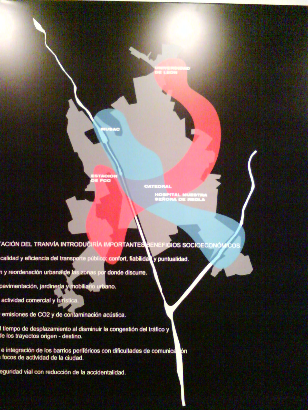 Presentation of the Sustainable Urban Mobility Plan (PMUS) from Leon. Tram Siemens Combino Plus